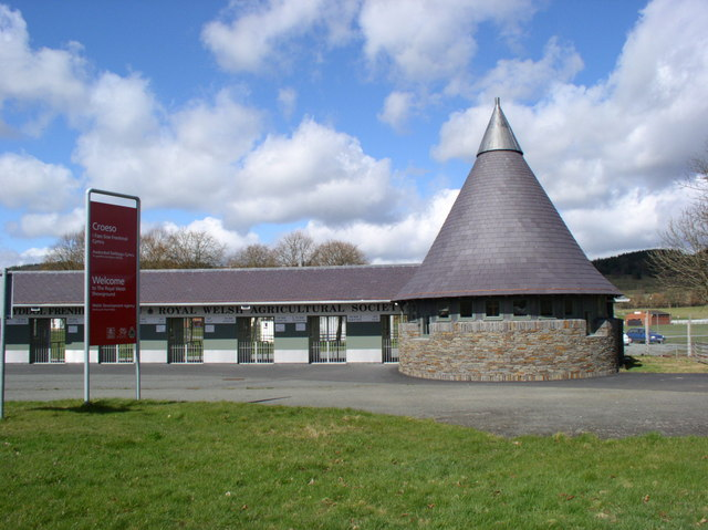 Royal Welsh Agricultural Show Ground, Llanelwedd. The main entrance to the Royal Welsh show ground in Llanelwedd. The Royal Welsh Agricultural Show was first held in Aberystwyth in 1904 and the show was held in various locations over the next 55 years. In 1962 it was decided to purchase a permanent location for the show because of rising costs, and in 1963 the first show was held at the new permanent ground in Llanelwedd, near Builth Wells, and has been held there every year apart from 2001 when the show was cancelled due to the Foot and Mouth outbreak.